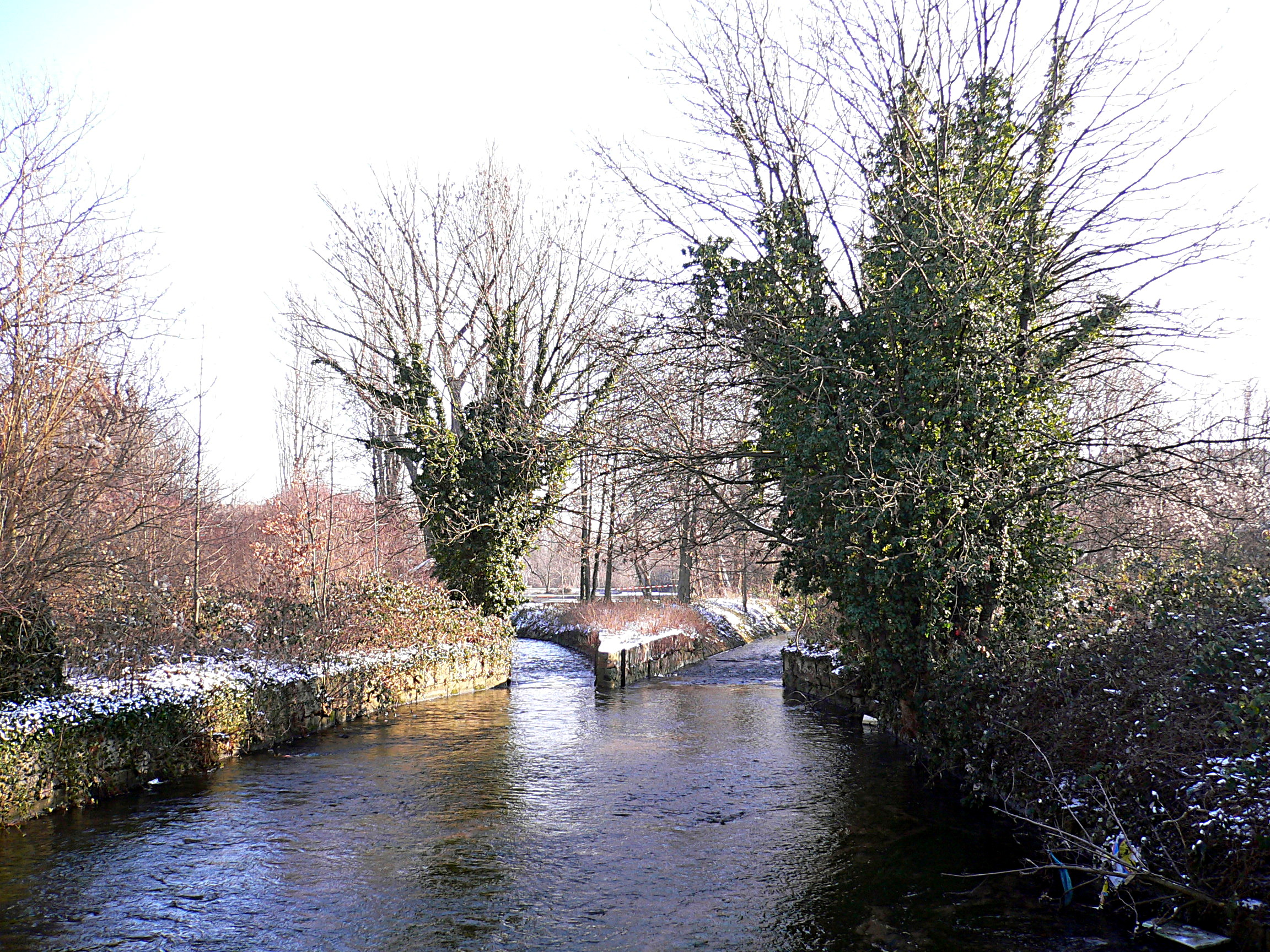 man-made bifurcation of Speyerbach east of Neustadt/Weinstraße; Rehbach flows to the left with 1/3, Speyerbach to the right with 2/3 of the stream